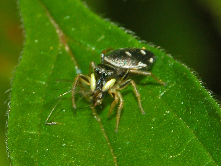 Heliophanus species in Genova, Italy